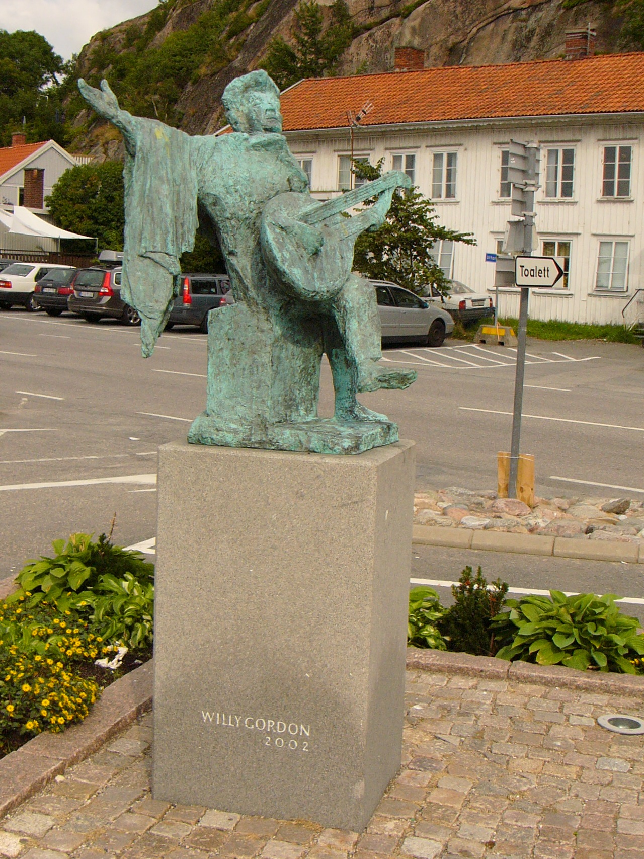 Statue of Evert Taube in Grebbestad.